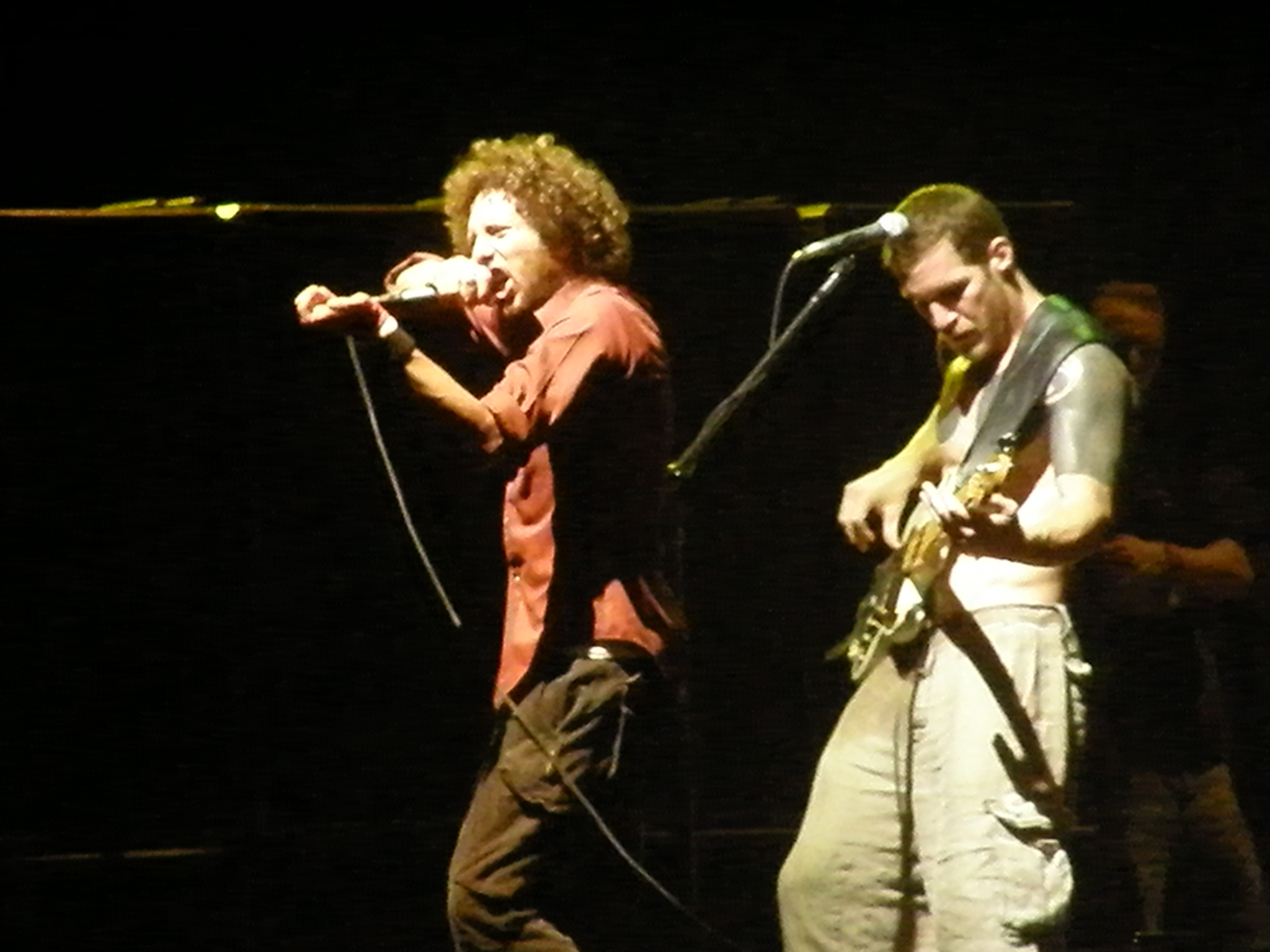 Rage Against The Machine Coachella 2007 Thier first show since 2000